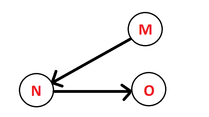 memory model by Wiliam James